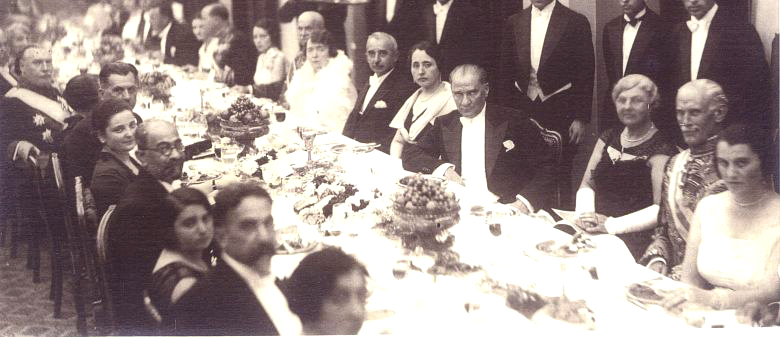 At the reception for the celebration of the 10th anniversary of the October Revolution in which Turkish president Mustafa Kemal Pasha (Atatürk), prime minister Ismet Pasha (İnönü), and Soviet ambassador Yakov Zaharovich Surits participated (the USSR Embassy in Ankara, on November 7, 1927).